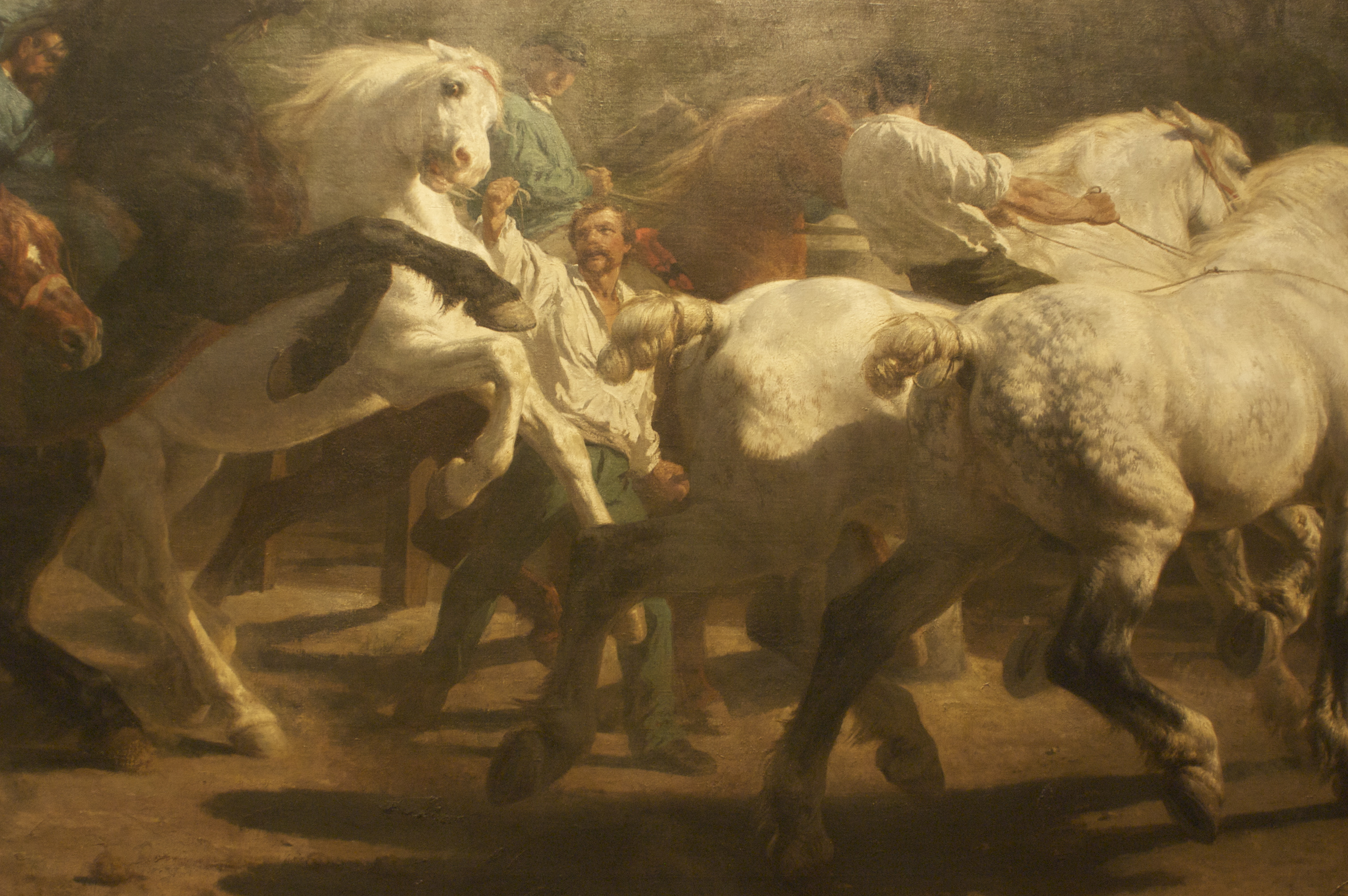 Rosa Bonheur (French, 1822–1899) The Horse Fair, 1853–55 Oil on canvas; 96 1/4 x 199 1/2 in. (244.5 x 506.7 cm) The Metropolitan Museum of Art, New York, Gift of Cornelius Vanderbilt, 1887 (87.25) View at the Metropolitan Museum of Art website Wikipedia Loves Art at the Metropolitan Museum of Art This photo of item # 87.25 at the Metropolitan Museum of Art was contributed under the team name "dmadeo" as part of the Wikipedia Loves Art project in February 2009. Metropolitan Museum of Art The original photograph on Flickr was taken by dmadeo—please add a comment to the original Flickr page whenever a use has been made on Wikipedia or another project. Project galleries on Flickr: this institution, this team